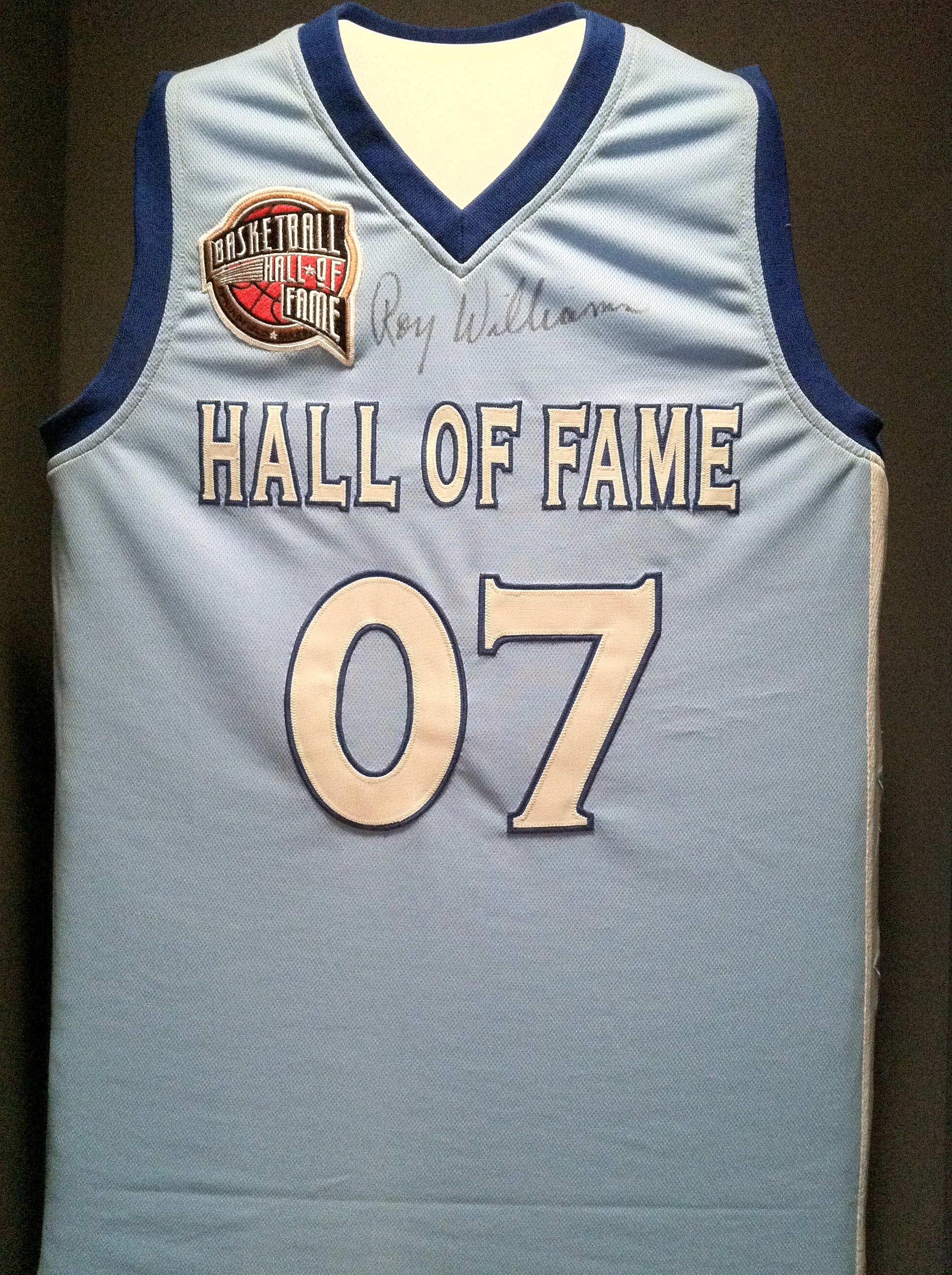 Roy Williams induction jersey from 2007 to the Basketball Hall of Fame. on display at the North Carolina Sports Hall of Fame in Raleigh, NC